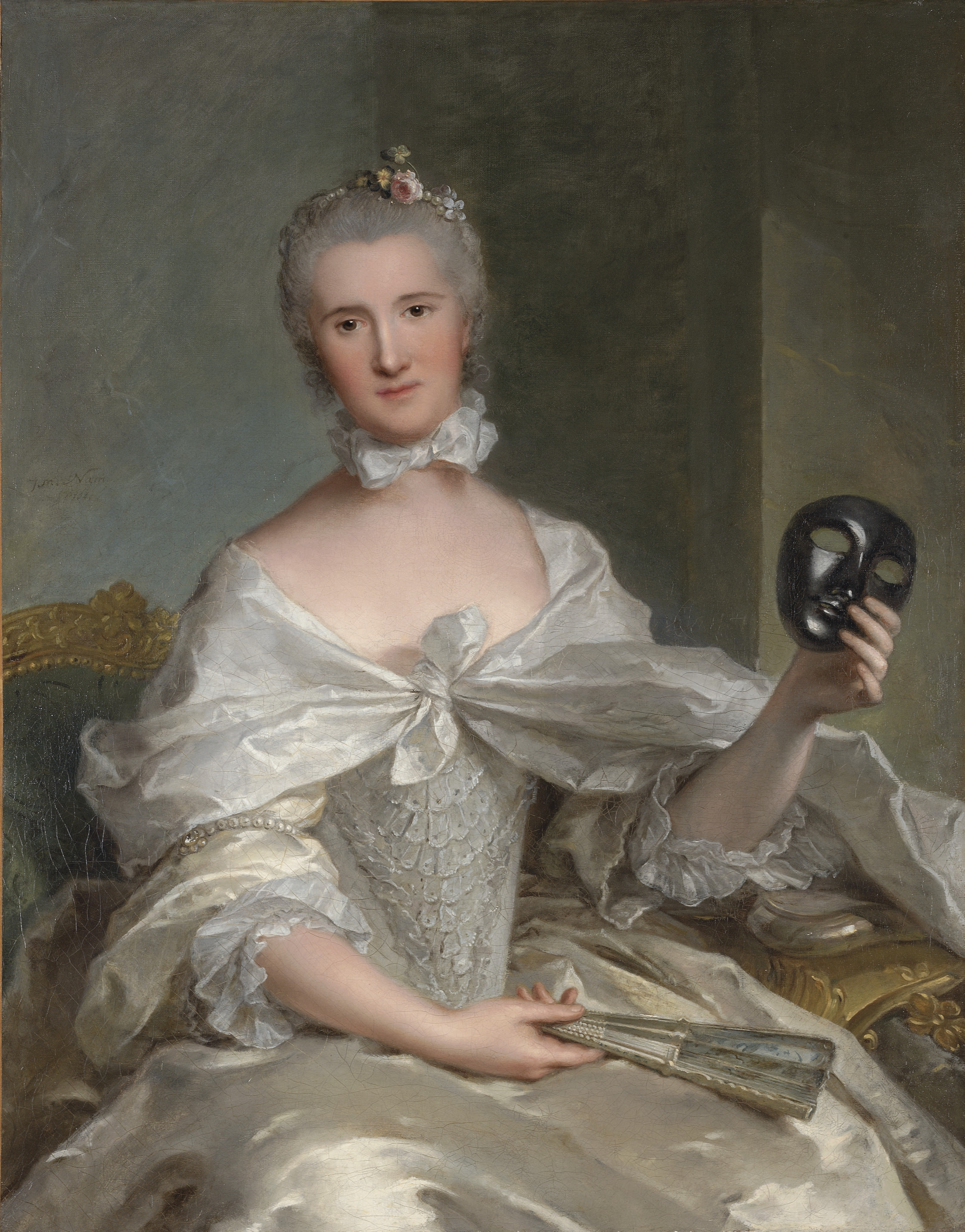 Portrait of Bonne Marie Félicité de Sérent, by Jean Marc Nattier.